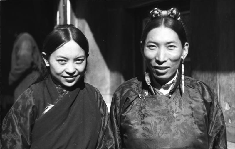 Tibetexpedition, Herr und Frau Dzongpen Gyantse, Herr und Frau Dzongpen. [Gyantse, Mr. und Mrs. Dzongpon.; Tracht] Information added by Wikimedia users.Gyantse Dzongpön Coktray(alt. spelling Tracht) and his wife Namgyal Tshedrön